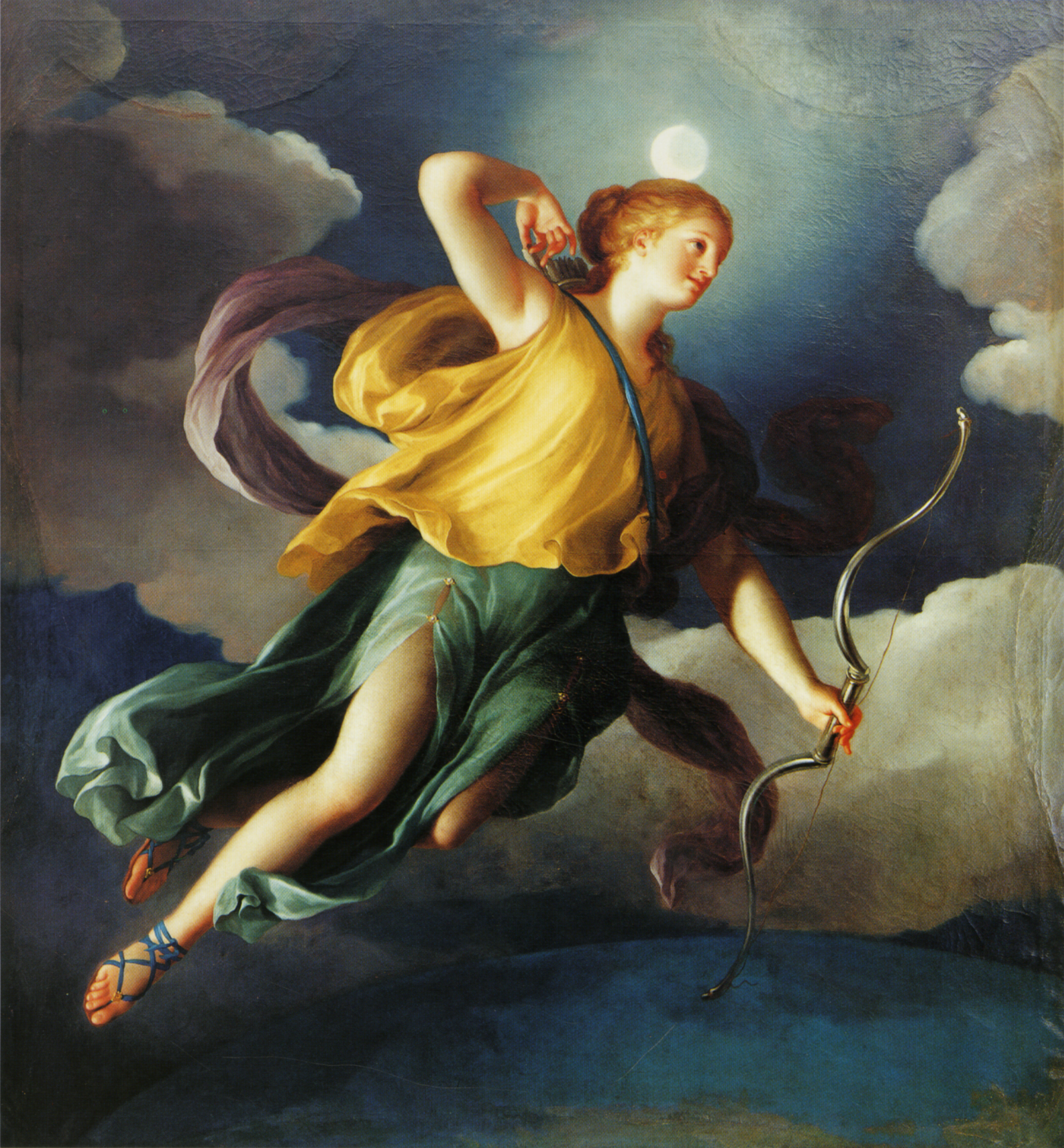 One of an ensemble of four paintings with personifications of the times of day intended as supraportas for the boudoir of Maria Luisa of Parma, Princess of Asturia.